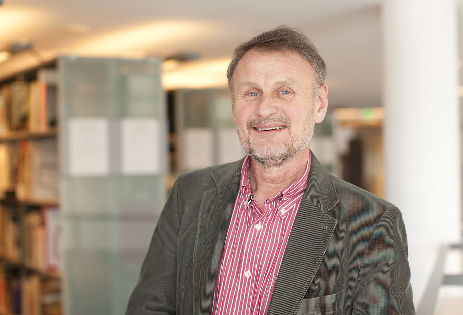 Anders Frenander in 2012